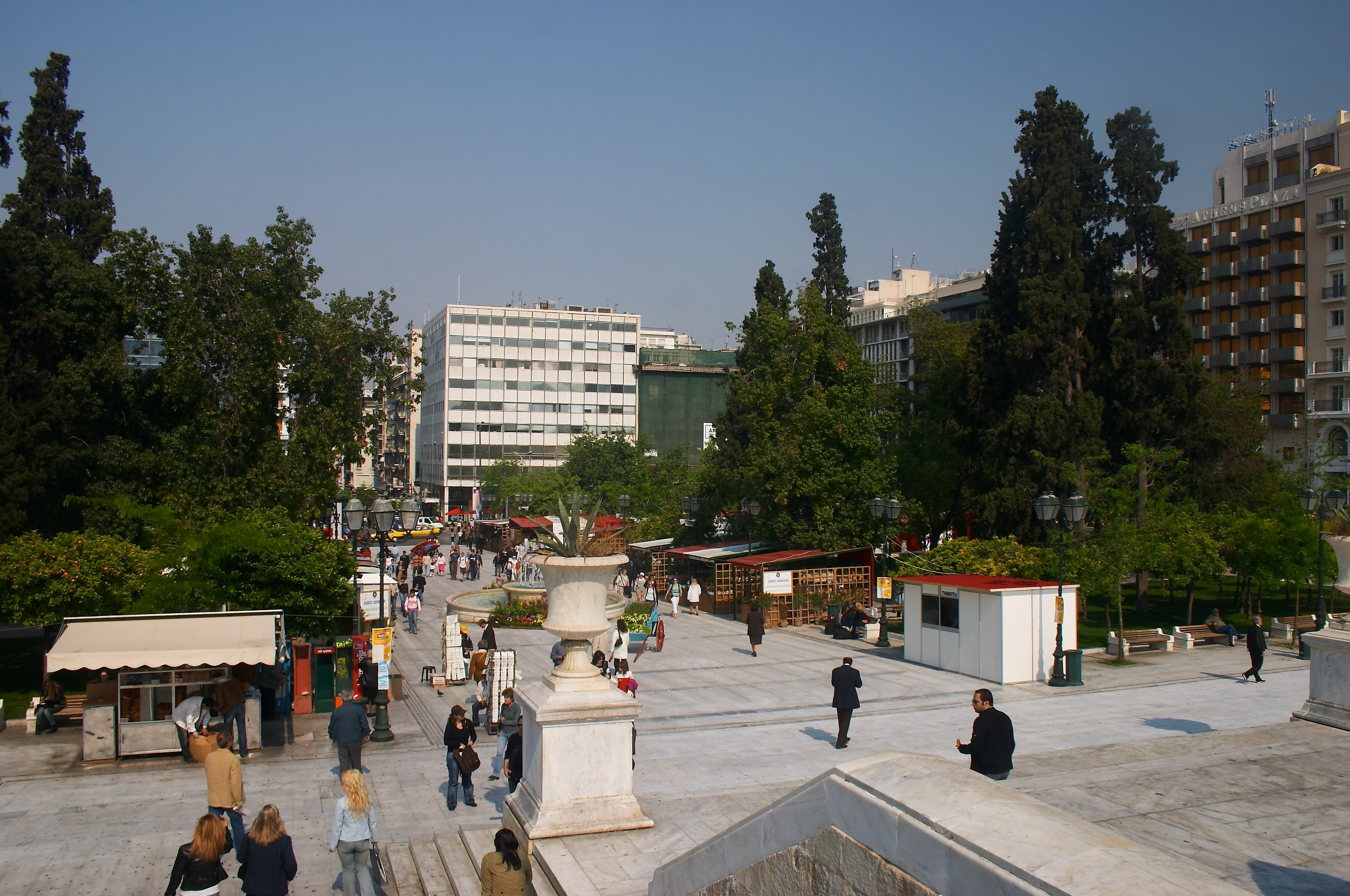 Syntagma square, Athens, Greece.